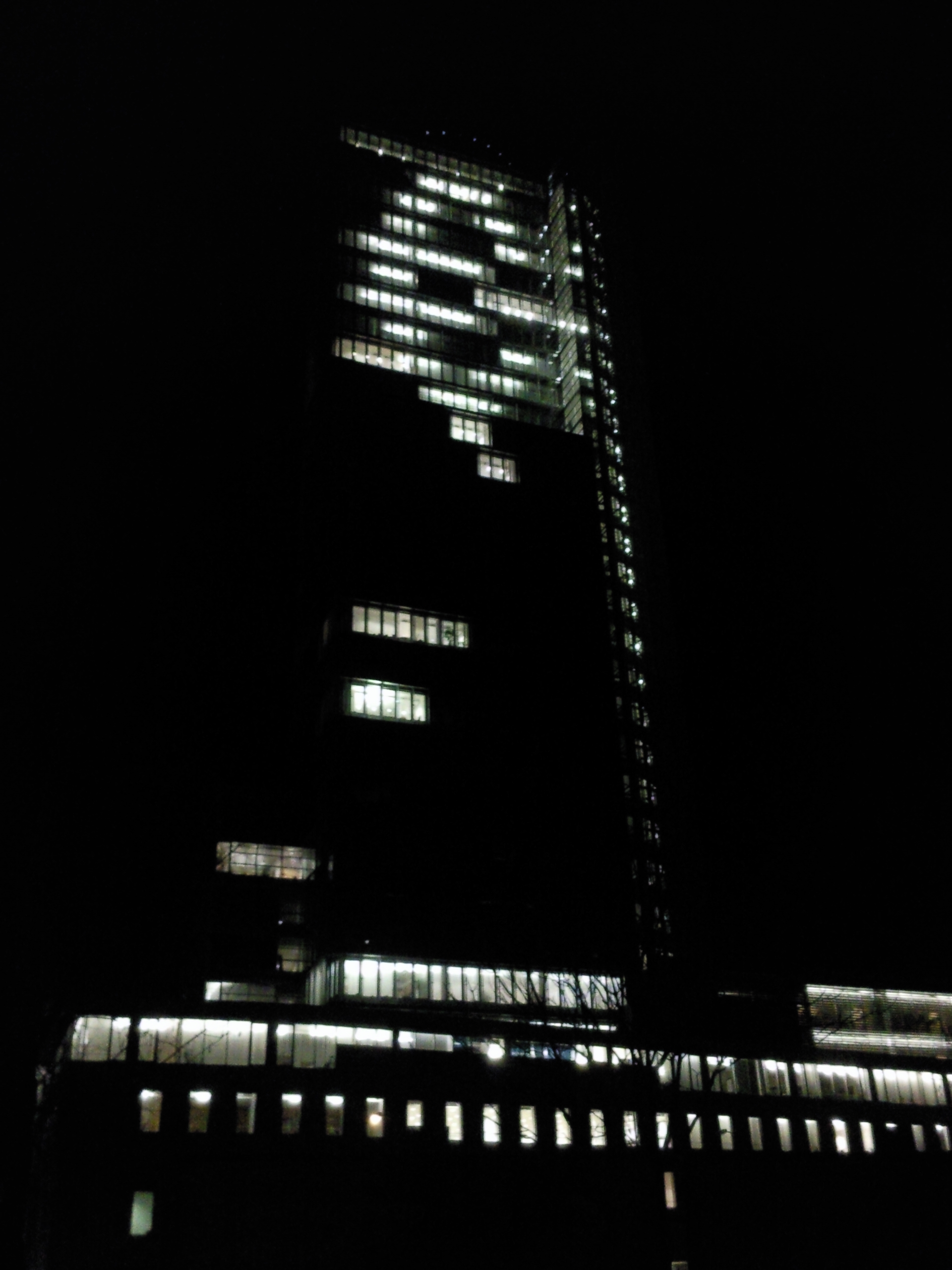 National Bank of Slovakia with euro symbol